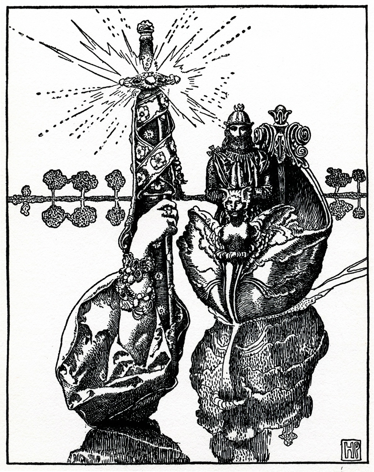 Howard Pyle illustration from the 1903 edition of The Story of King Arthur and His Knights scanned and archived at where it was marked as Public Domain.